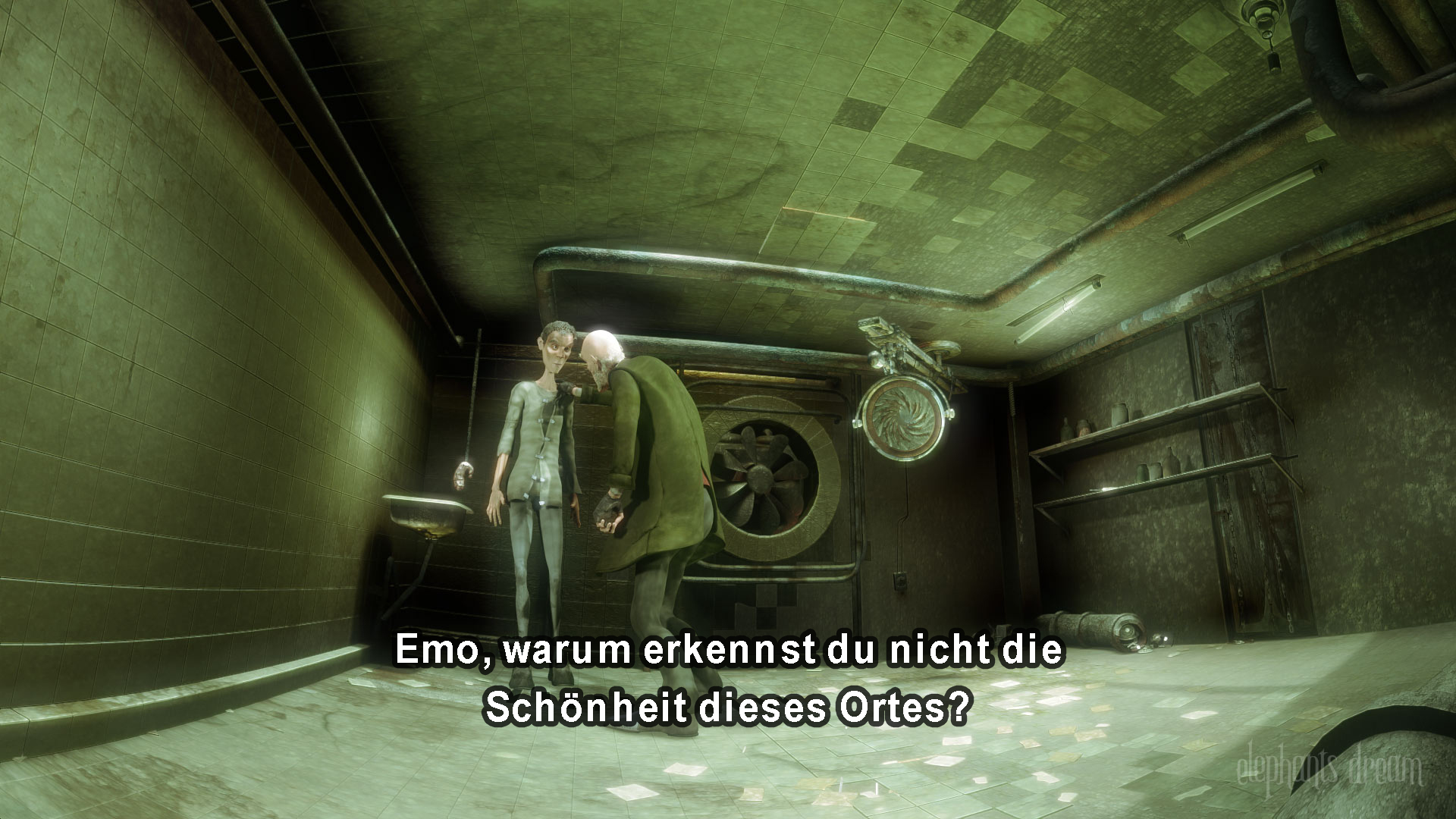 Image from the film Elephants Dream, edited for german WP-article „Untertitel“